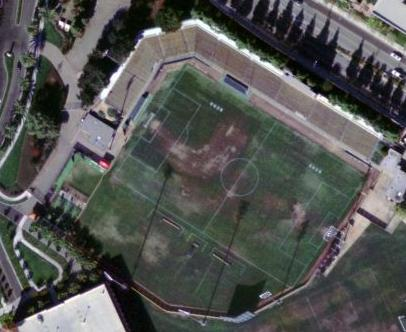 PD image provided to the public by the USGS at